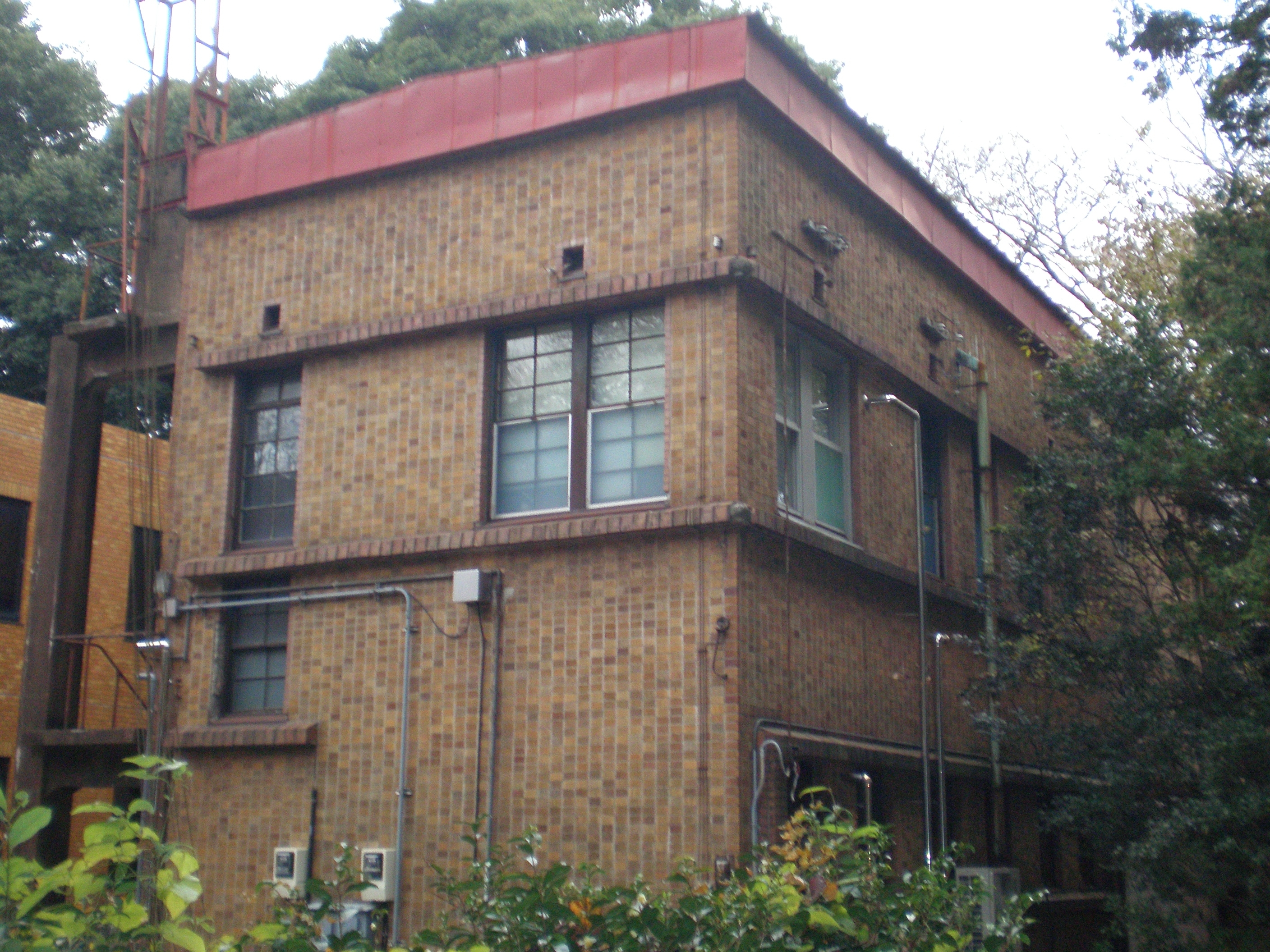 An Old Library at Mitaka Campus, National Astronomical Observatory of Japan.